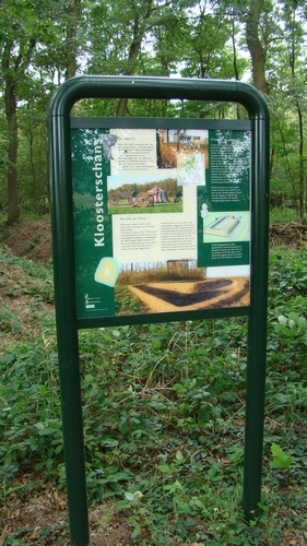 Informationpanel at the "kloosterschans" near Bredevoort (Netherlands)